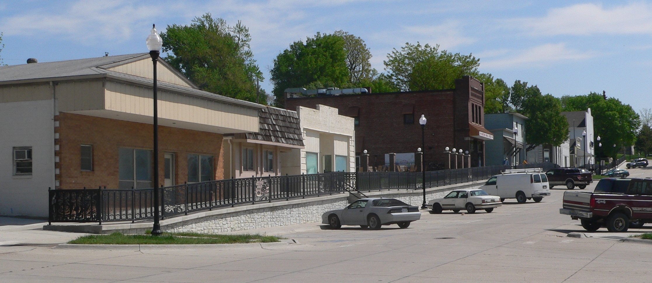 Downtown Bennington, Nebraska: north side of 2nd Street, seen from the west.